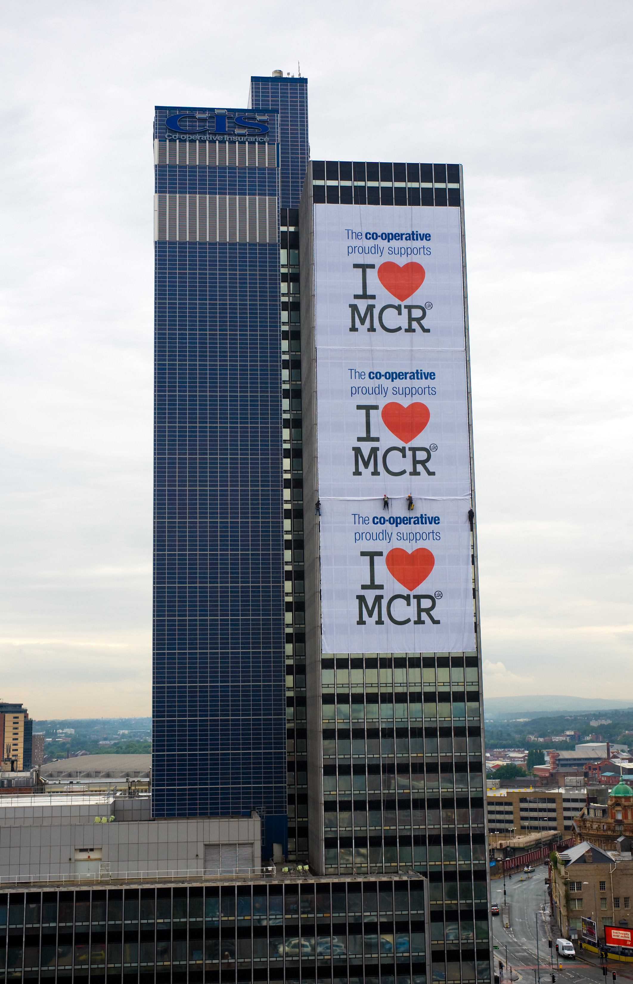 A giant billboard covering the top floors of the CIS Tower is being unveiled today demonstrating The Co-operative’s support for the “I Love MCR” campaign. The campaign was launched by the Manchester business community in response the rioting in the city. Peter Marks, Group Chief Executive said: “We are extremely proud of our Manchester roots and the role we play in the commercial life of this great city. We have been here for almost 150 years and we intend to be here for the next 150. “We were all shocked to see the disgraceful scenes of rioting and violence but the way everyone has rallied behind the “I love MCR” campaign is testimony to the real spirit of Manchester. “We wanted everyone to know that we are backing the campaign and what better way to do it than erecting a poster that everyone can see for miles around.”